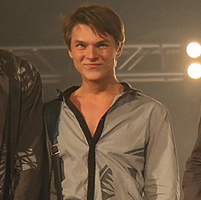 Boyband - musical in Komedia Theatre in Warsaw, 7 November 2008: Michał Kruk (Danny), Maciej Radel (Matt), Marcin Mroziński (Sean), Tomasz Bacajewski (Adam) and Jarosław Derybowski (Jay).